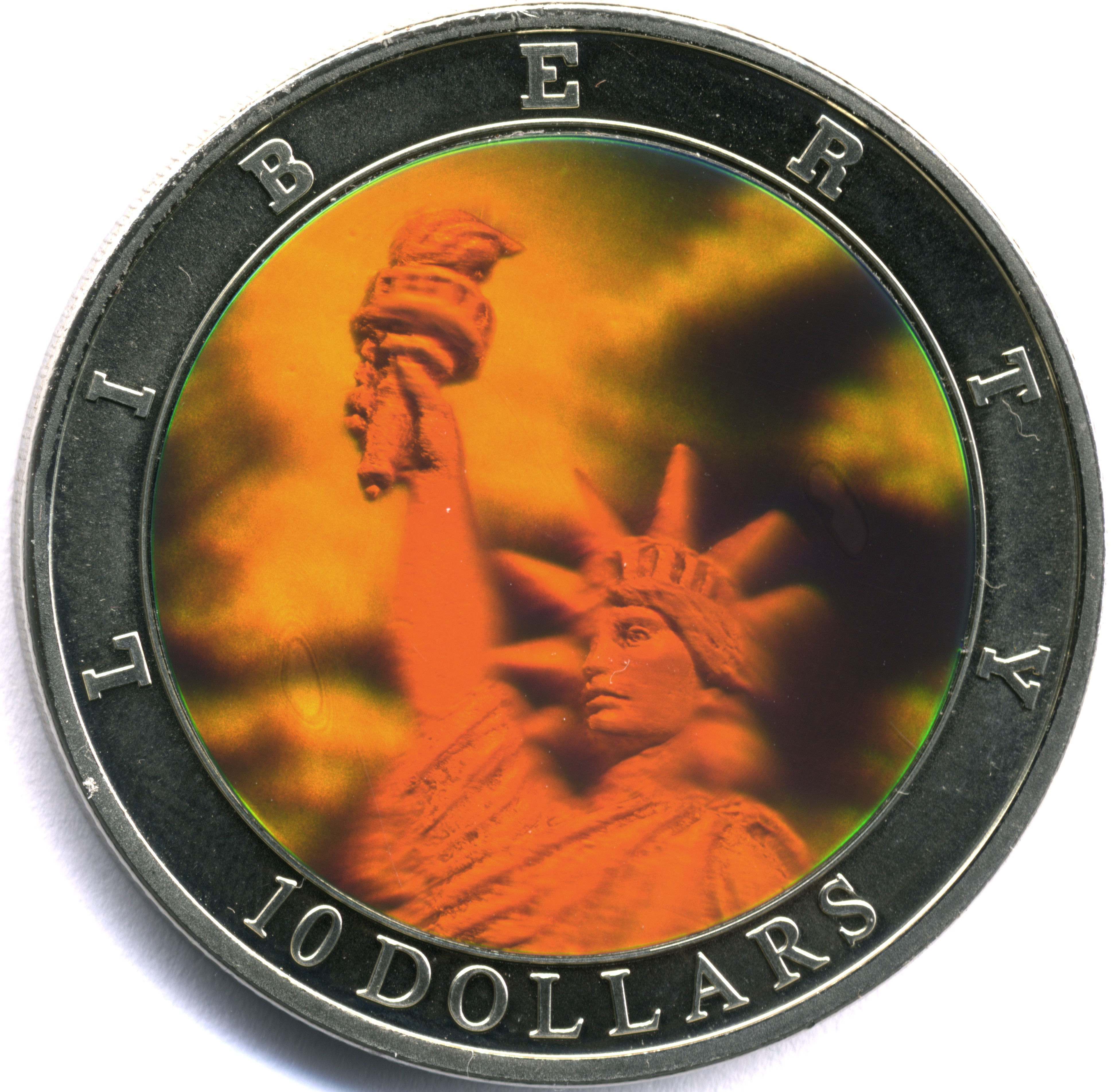 Y2K Holographic coin from Liberia featuring Statue of Liberty